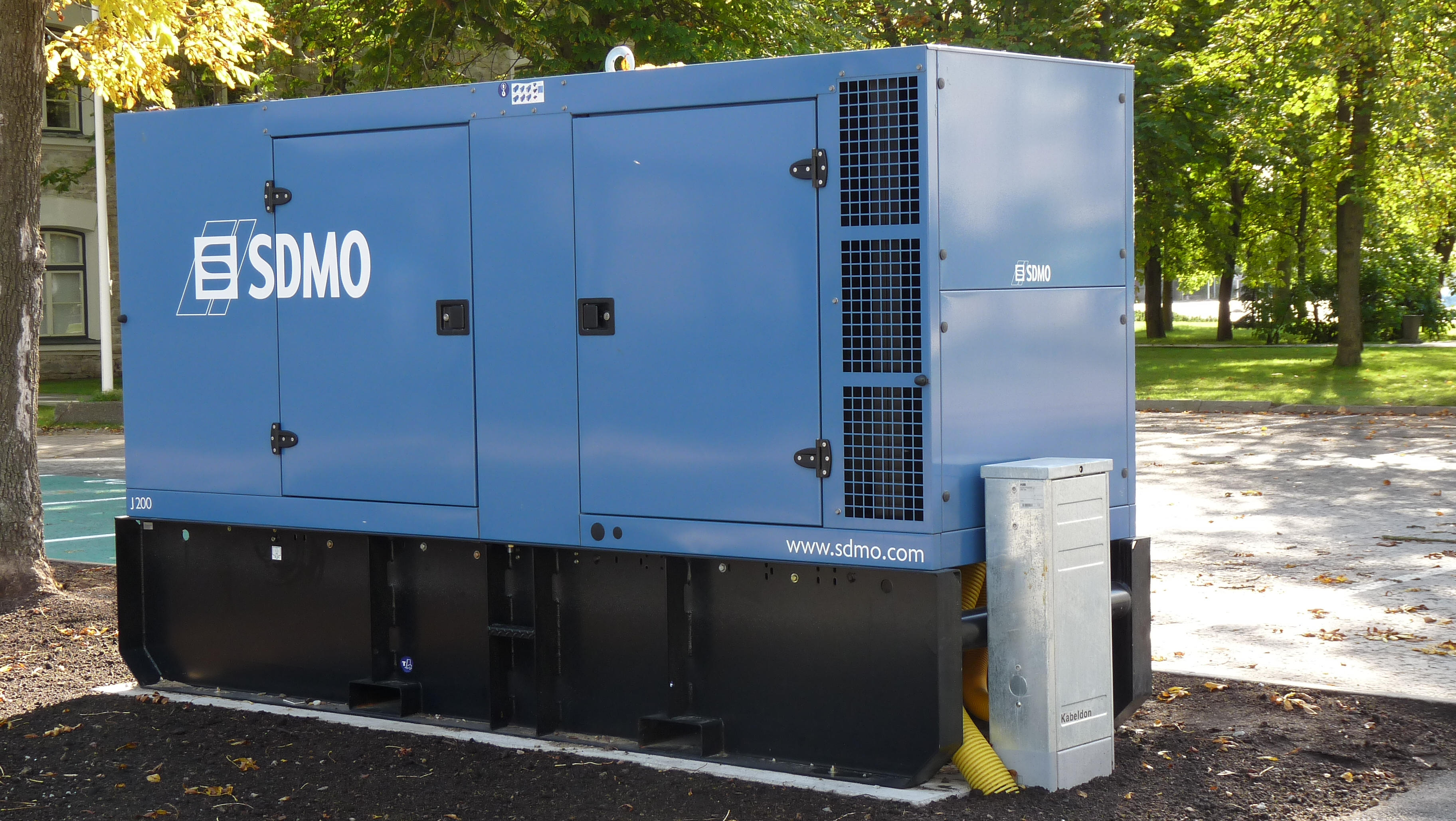 Diesel generator in Tallinn, Estonia